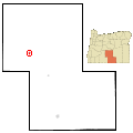 The community Summer Lake's location in Lake County, Oregon